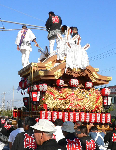 Festival of Kounoike Jinjya(Shrine at Itami, Hyōgo in Japan).